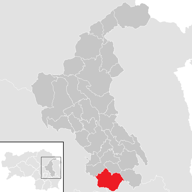 district Weiz